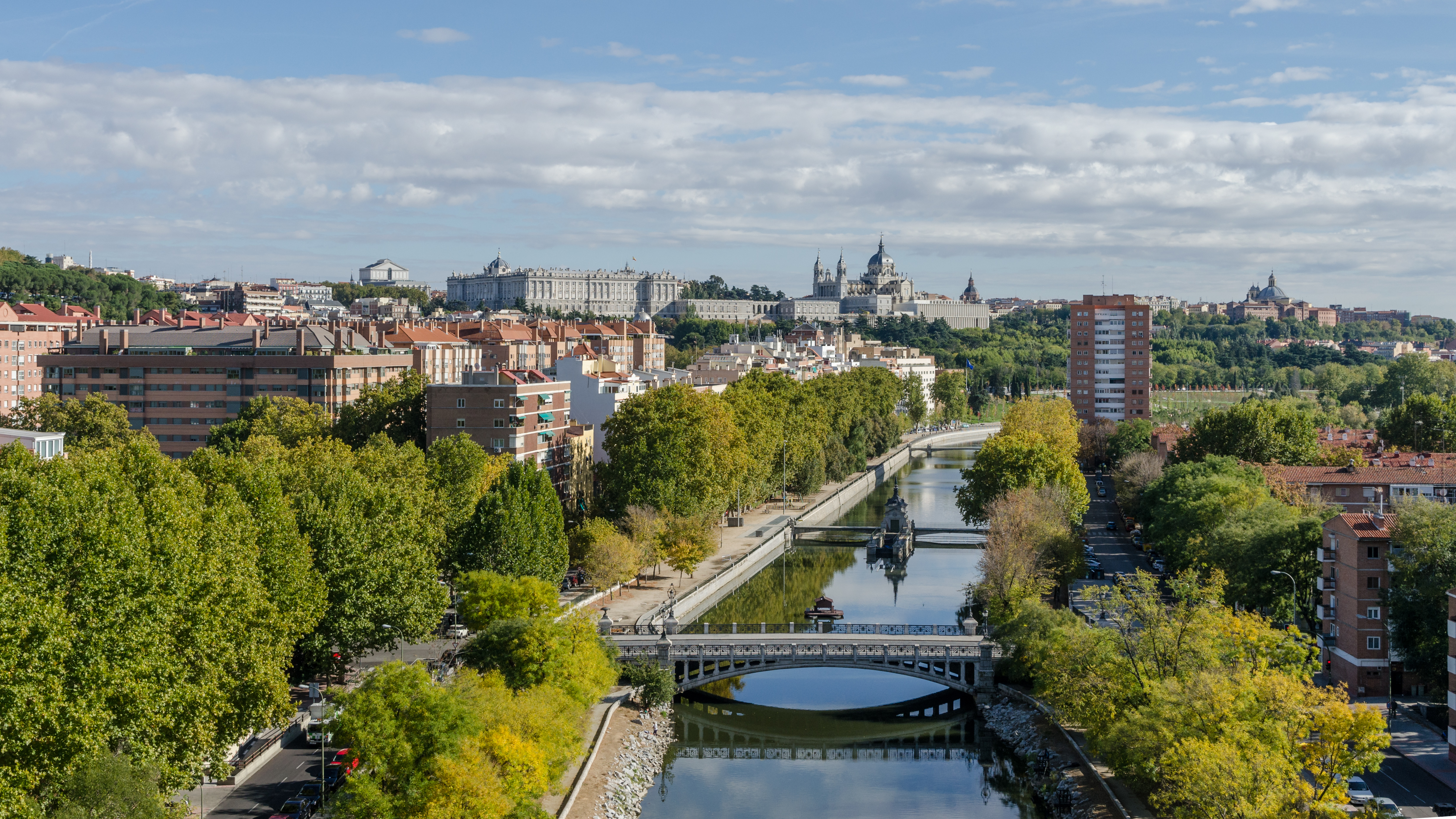 View of Madrid and Río Manzanares from Téleferico